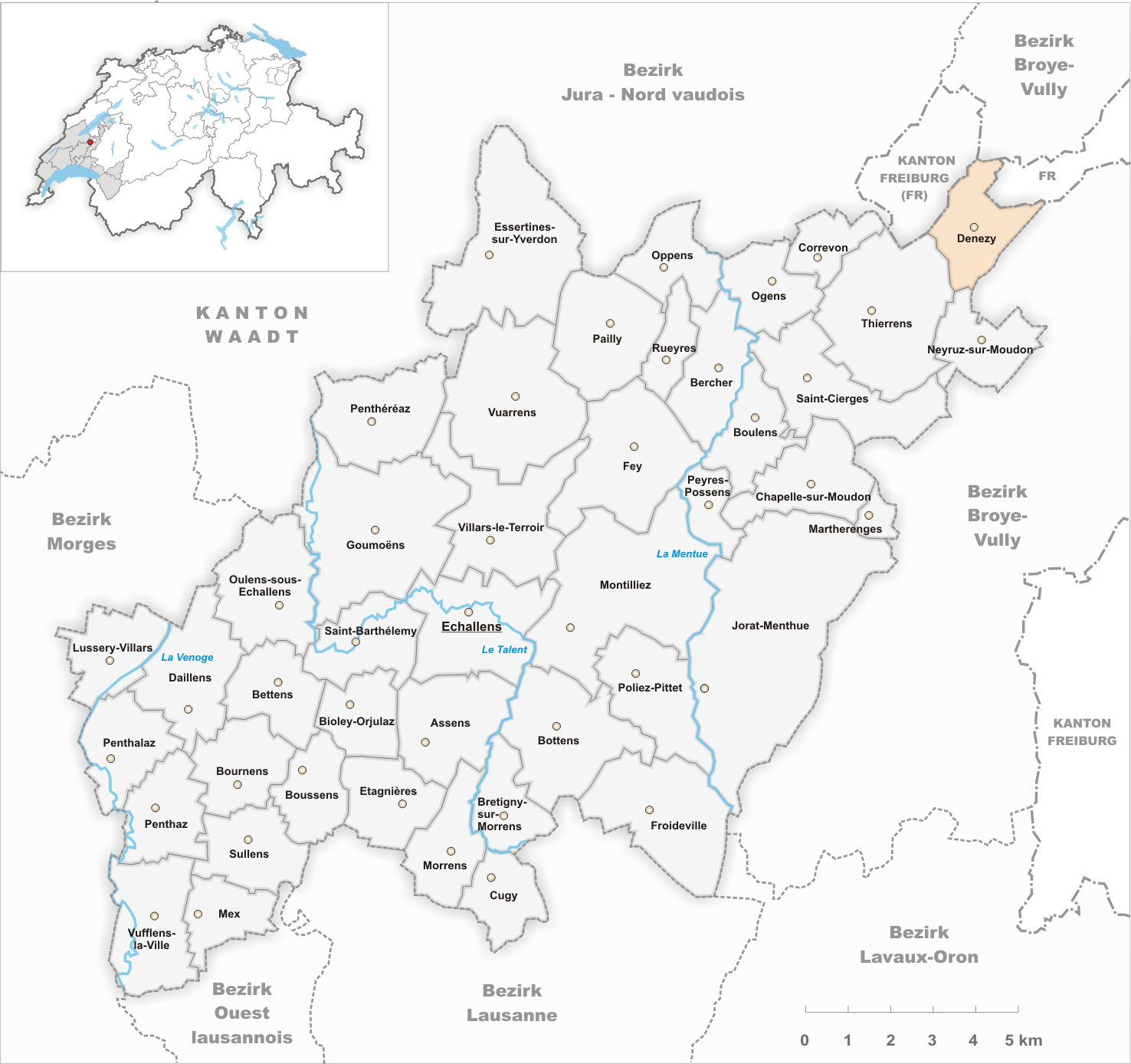 Municipality Denezy